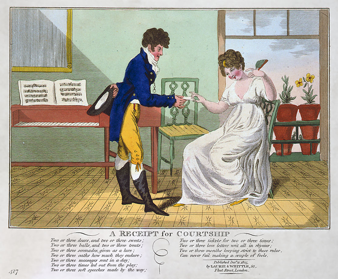 "A receipt [i.e. recipe] for courtship", a Dec. 21st 1805 caricature mildly satirizing the courting customs or romance rituals of 1805 England. Poem contained in caricature: Two or three dears, and two or three sweets; Two or three balls, and two or three treats; Two or three serenades, given as a lure; Two or three oaths how much they endure; Two or three messages sent in a day; Two or three times led out from the play; Two or three soft speeches made by the way; Two or three tickets for two or three times; Two or three love letters writ all in rhymes; Two or three months keeping strict to these rules, Can never fail making a couple of fools. The keyboard instrument at left signifies that music also played a role in the courtship process...